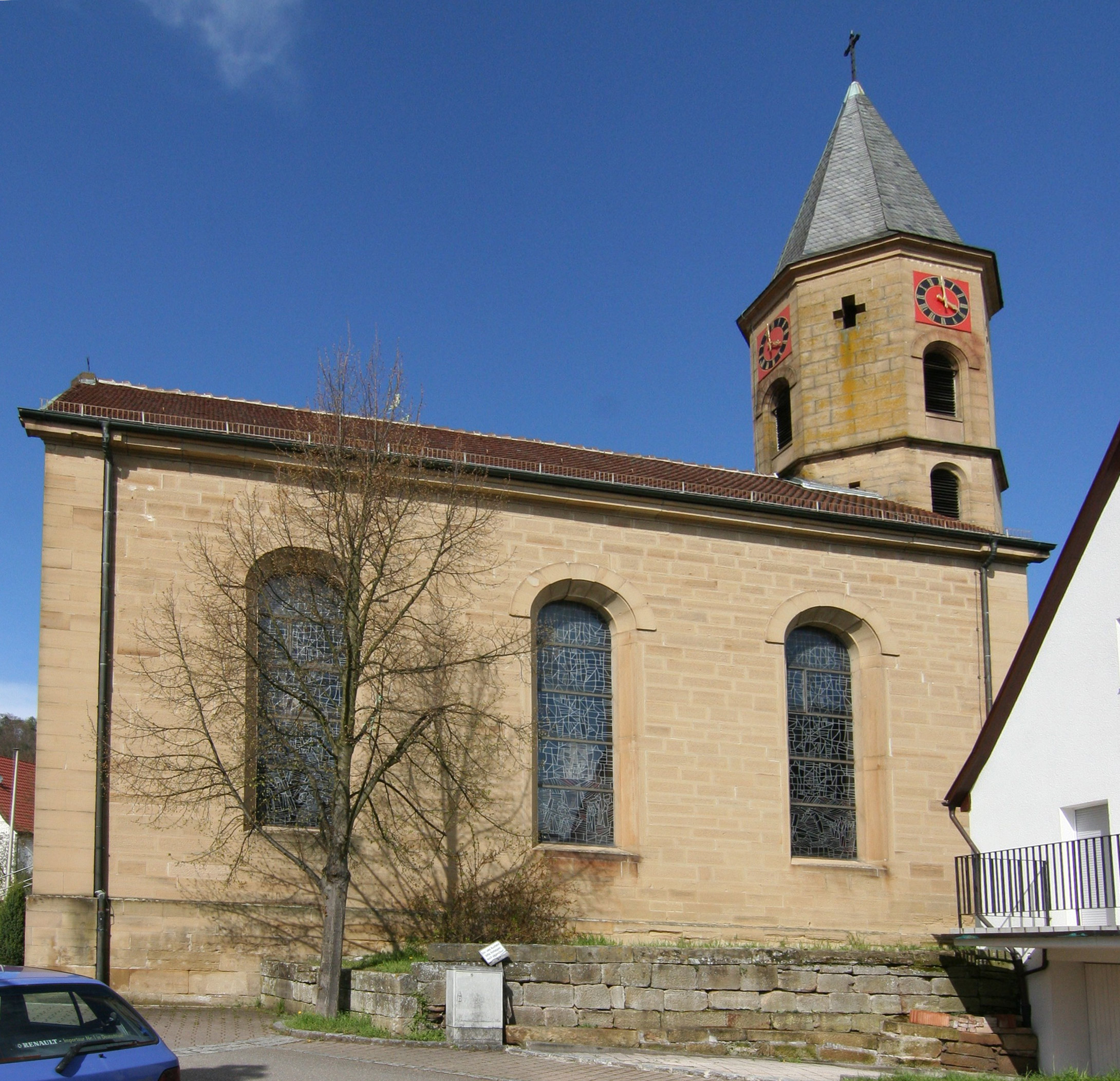 The Roman Catholic church St Oswald in Weinsberg-Wimmental from the South